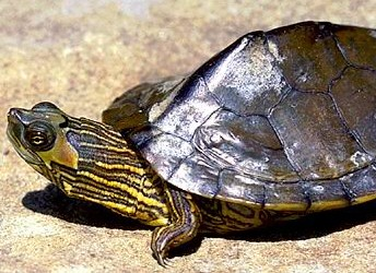 Author: Lord Natonstan| Source: My Alabama Map Turtle Summary Author: Lord Natonstan Source: My Alabama Map Turtle